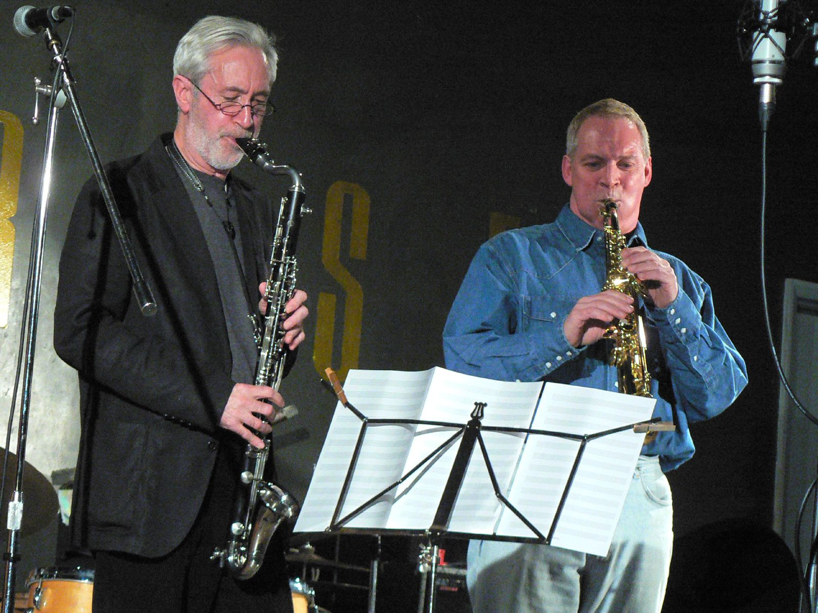 Chris Biscoe (left) performing at the Paul Rutherford Memorial Concert